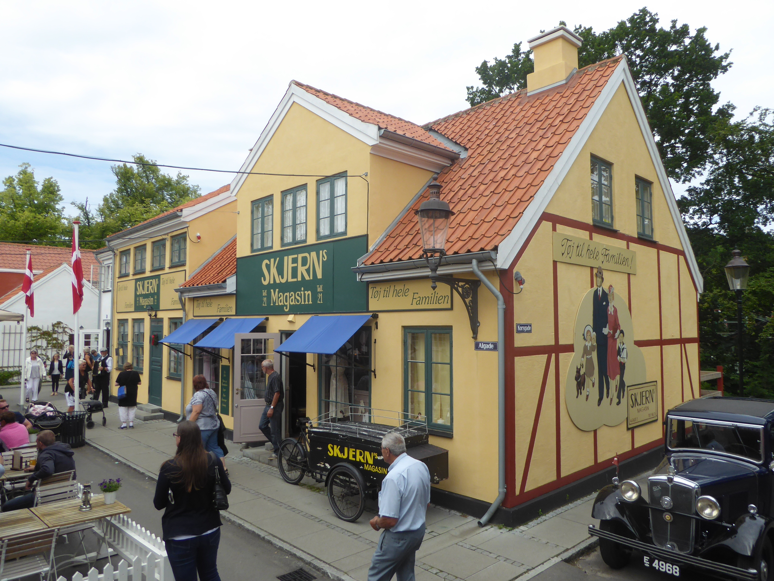 Reconstruction of the fictional city Korsbæk from the Danish television serie Matador in the amusement park Bakken north of Copenhagen.